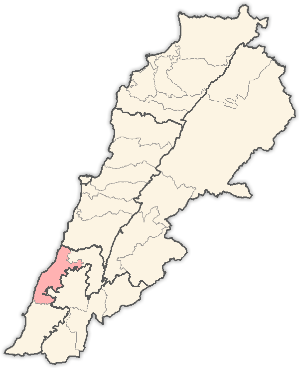 Map of districts in Lebanon, highlighting the Sidon District